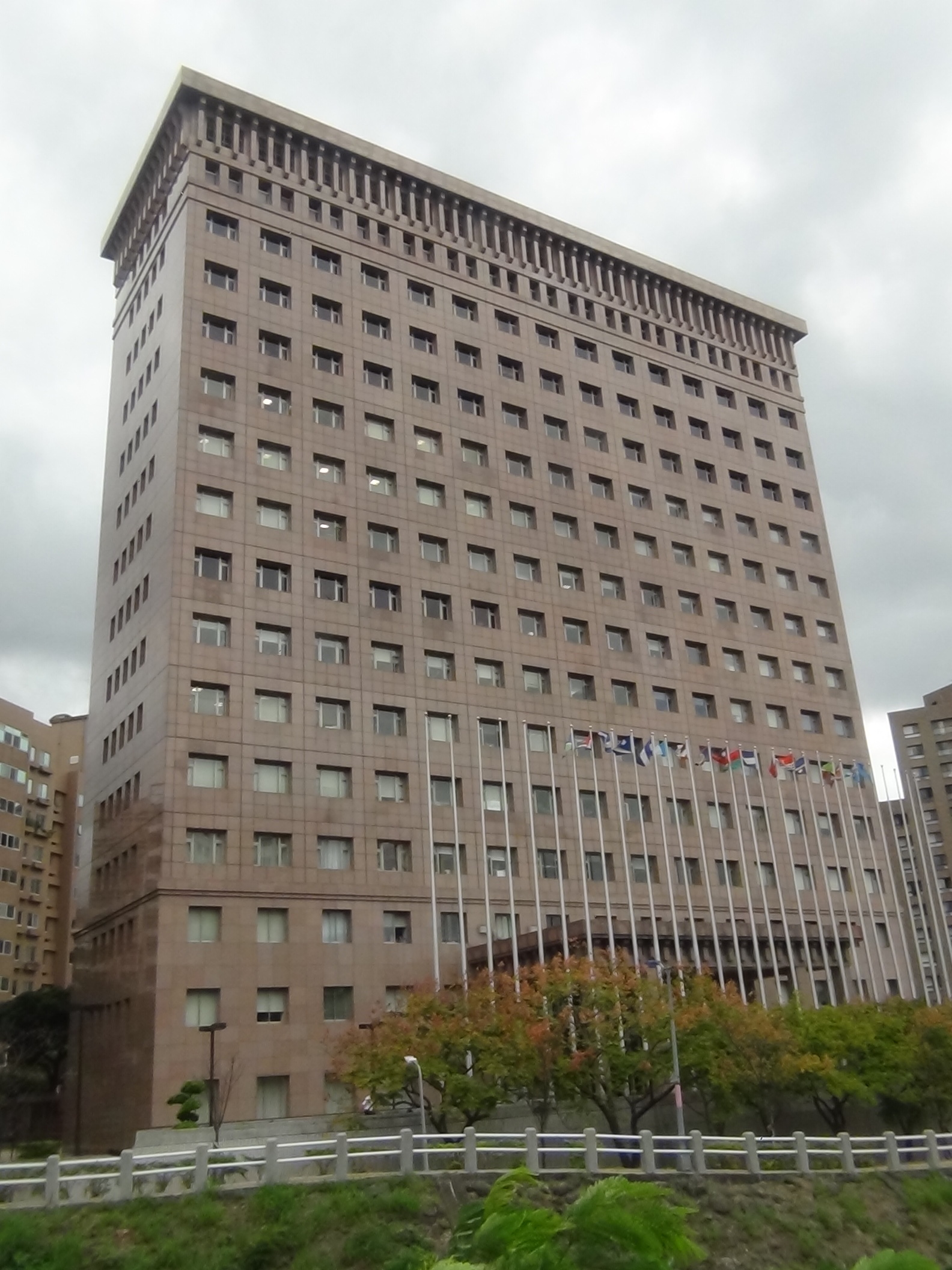 The Diplomatic Quarter (使館特區) of Taiwan (中華民國), as seen from Lane 101, Tianmu West road (天母西路101巷) on 31 October 2017, around 1PM (Picture 1). Seventeen national flags from left to right: Solomon Islands, Republic of Paraguay, Republic of Nicaragua, Republic of Honduras, Republic of Guatemala, Dominican Republic, Belize, Republic of China (Taiwan), Burkina Faso, Republic of El Salvador, Republic of Haiti, Republic of Kiribati, Republic of Nauru, Federation of Saint Christopher and Nevis, Kingdom of Swaziland, Tuvalu, Republic of Palau.